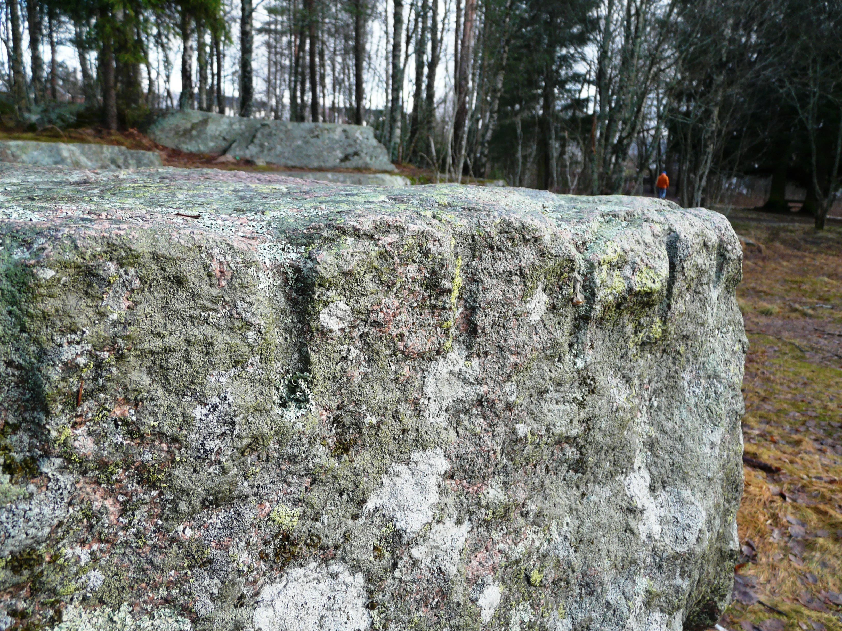 Traces of 19th century opencast mining, in Lillomarka, Oslo, Norway.